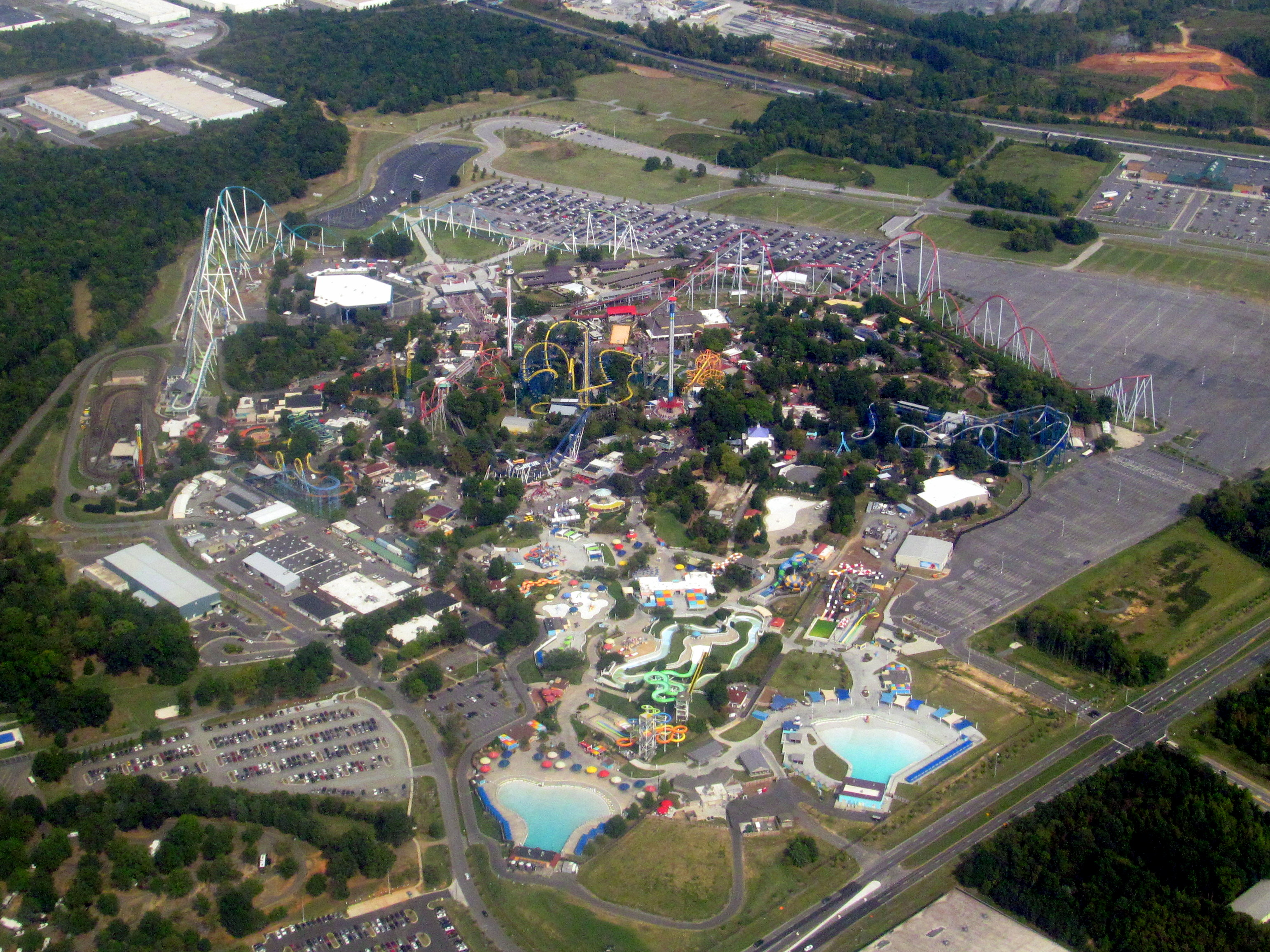 Aerial view of Carowinds in September 2017